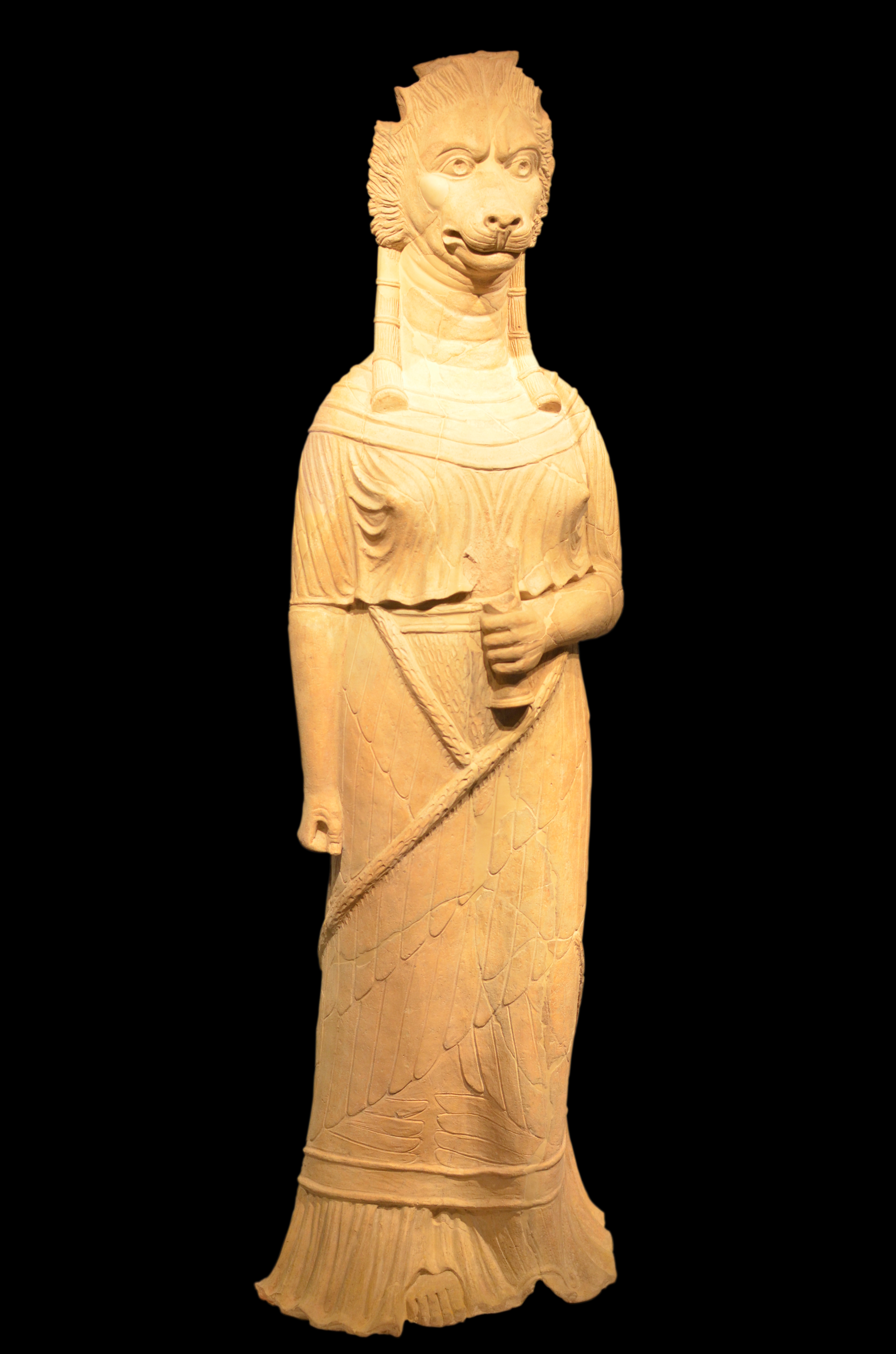 Punic statue of a goddess with a lion's head from the Roman period. Researchers identify the goddess as Tanit based on the location of the find: a temple of Tanit and Baal Hammon.